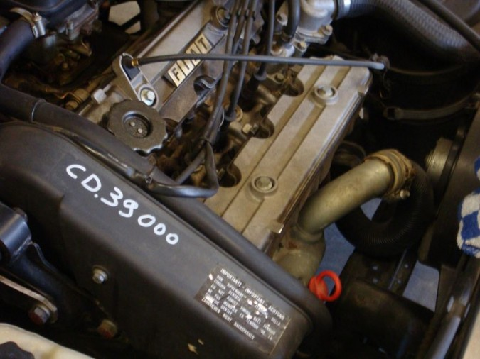 1,995 cc Fiat C.H.T. (Controlled High Turbulence) twin-cam inline-four in a 1989 Fiat Croma.